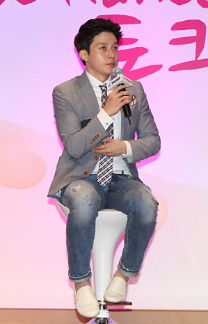 Heo Gyeong Hwan (Korean Comedian) at LG Tromm Love Hands Talk Concert, on July 19, 2012